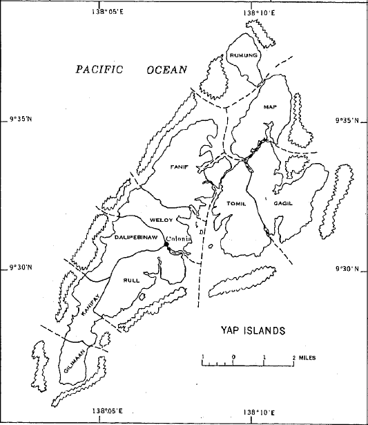 Yap Islands municipality map, Federated States of Micronesia, Pacific Ocean